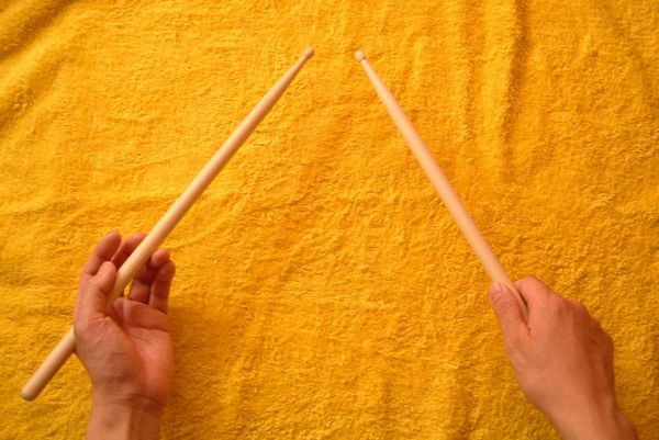 drum stick and hand